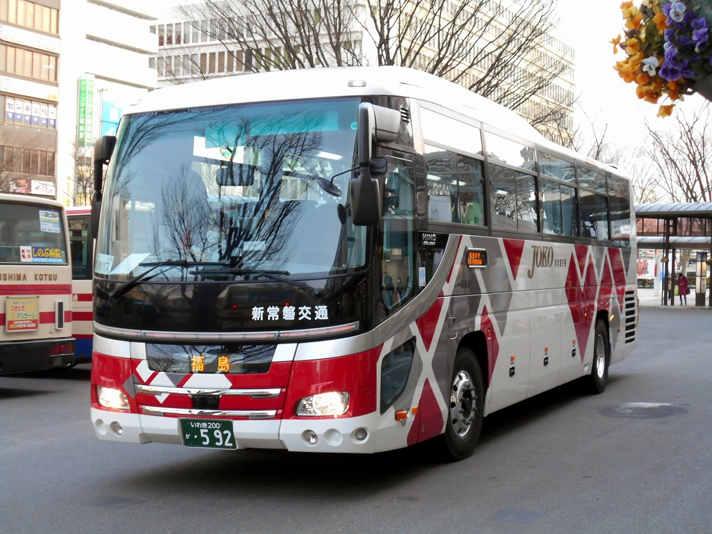 New Joban Kotsu Hino S'elega highwaybus "Iwaki-Fukushima"